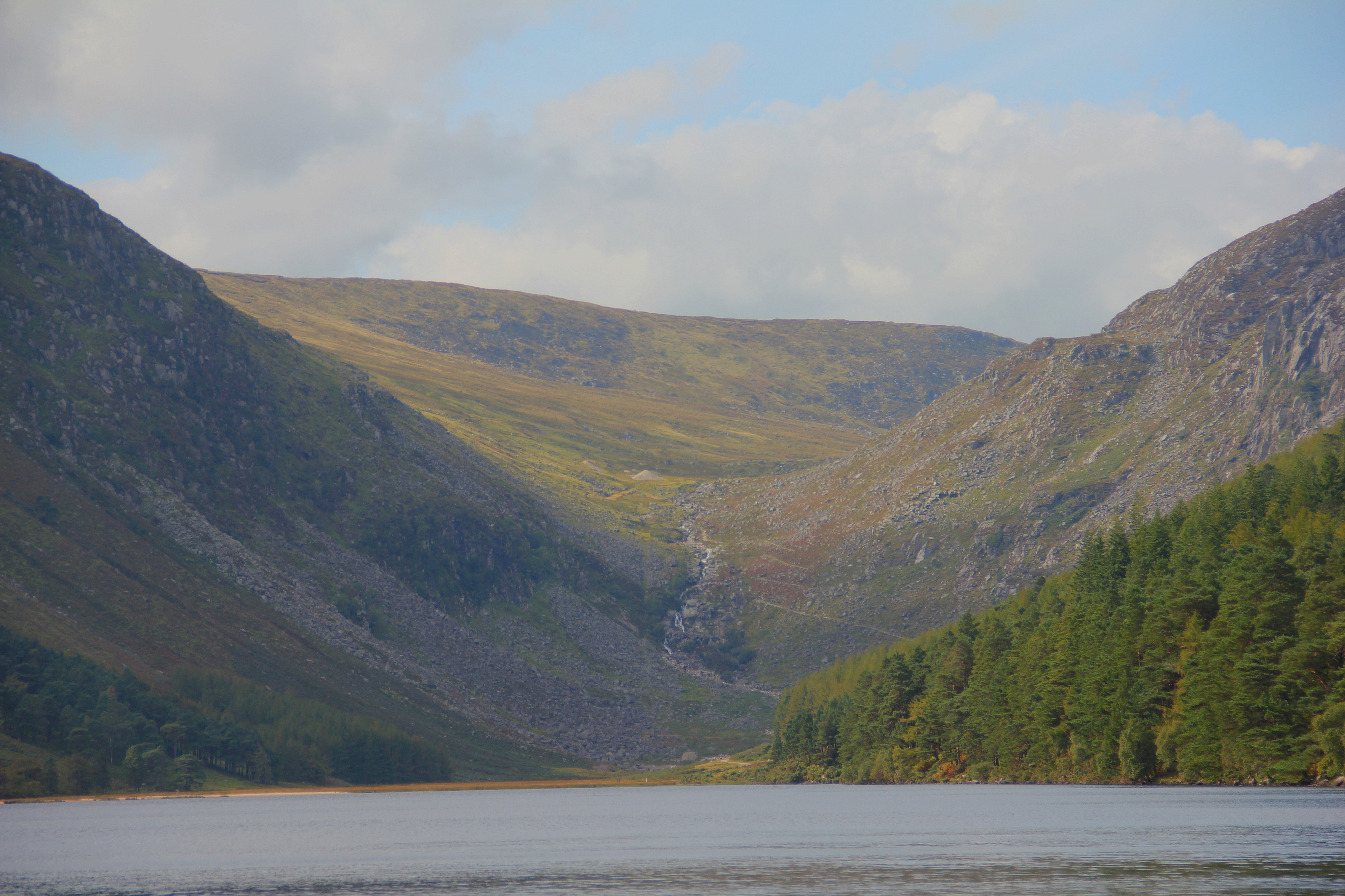 View over the Upper Lake in Glendalough Valley into Glenealo Valley, Wicklow Mountains National Park, Glendalough, County Wicklow, Ireland.